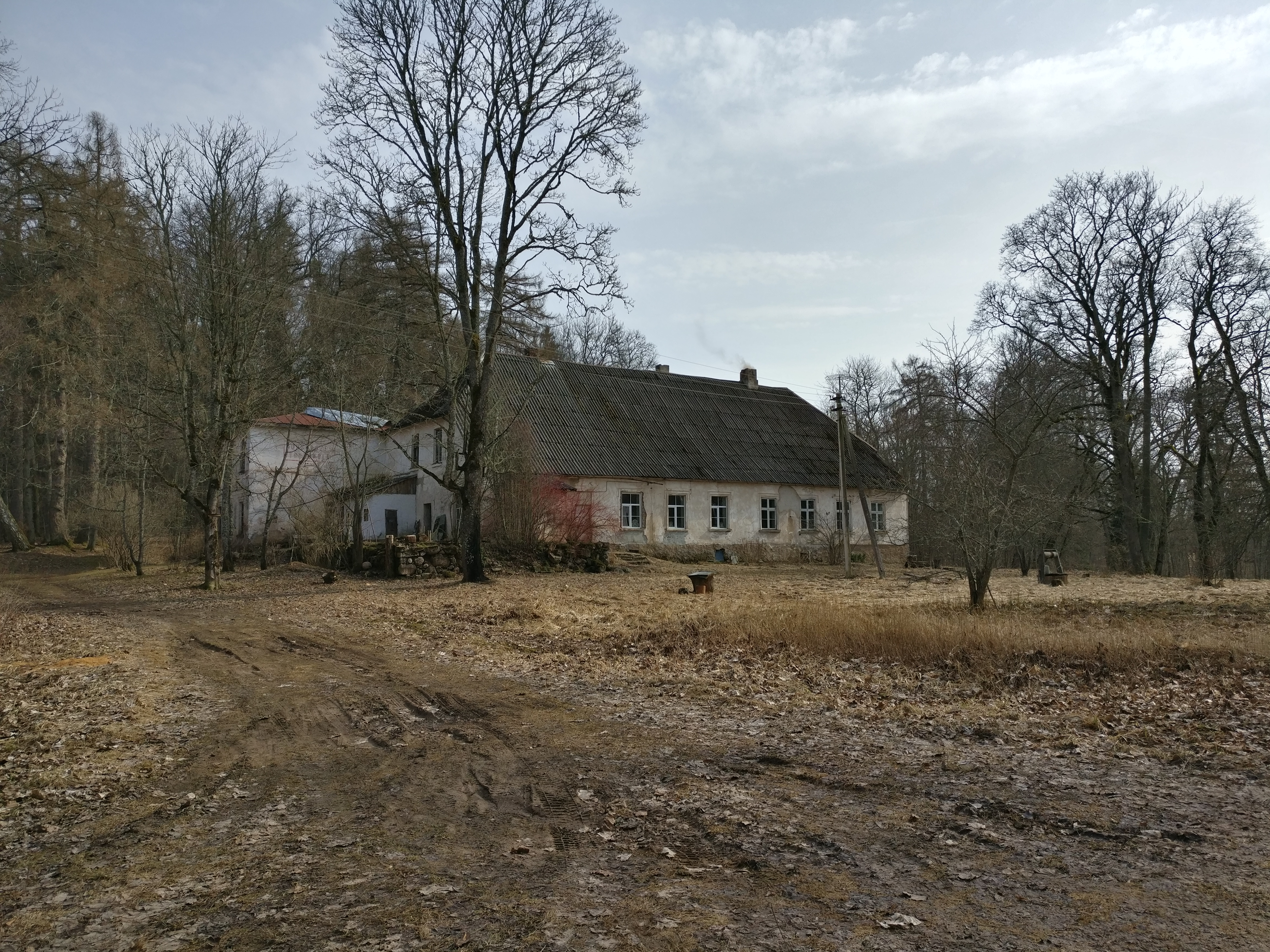 Augstrozes muiža